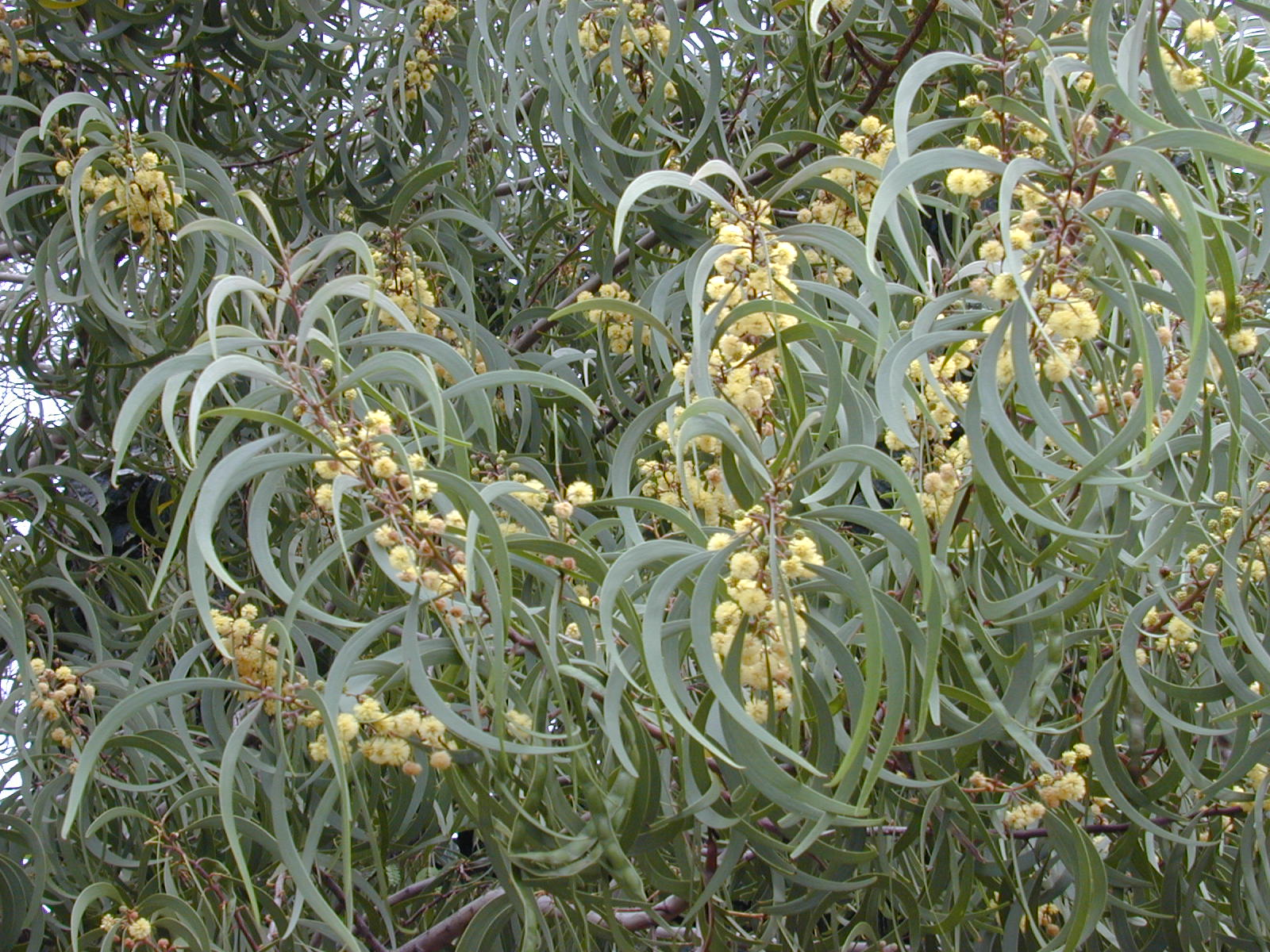 Acacia koaia (leaves and flowers). Location: Maui, Makawao